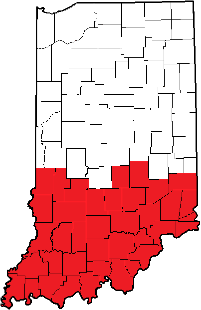 Counties that are in part or in whole part of area code 812.